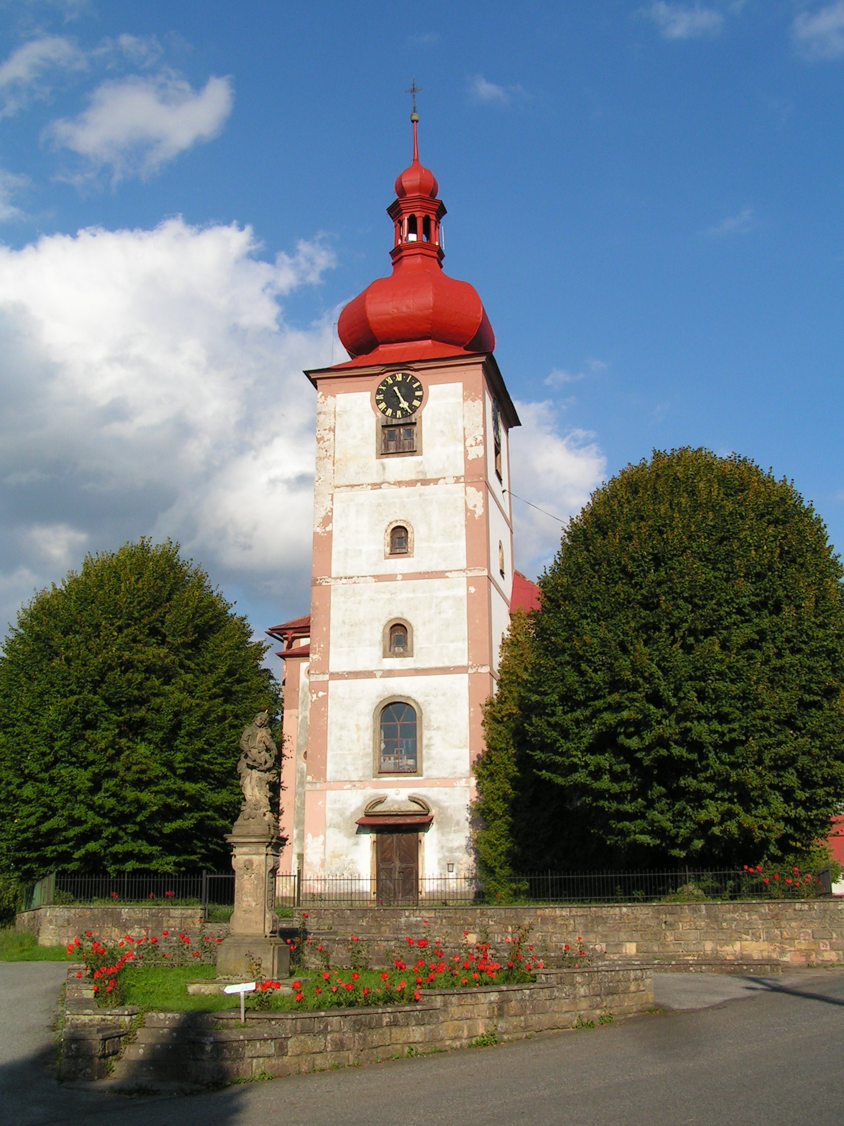 Church of St. George from 1709 (front view), Radim (Jicin District)